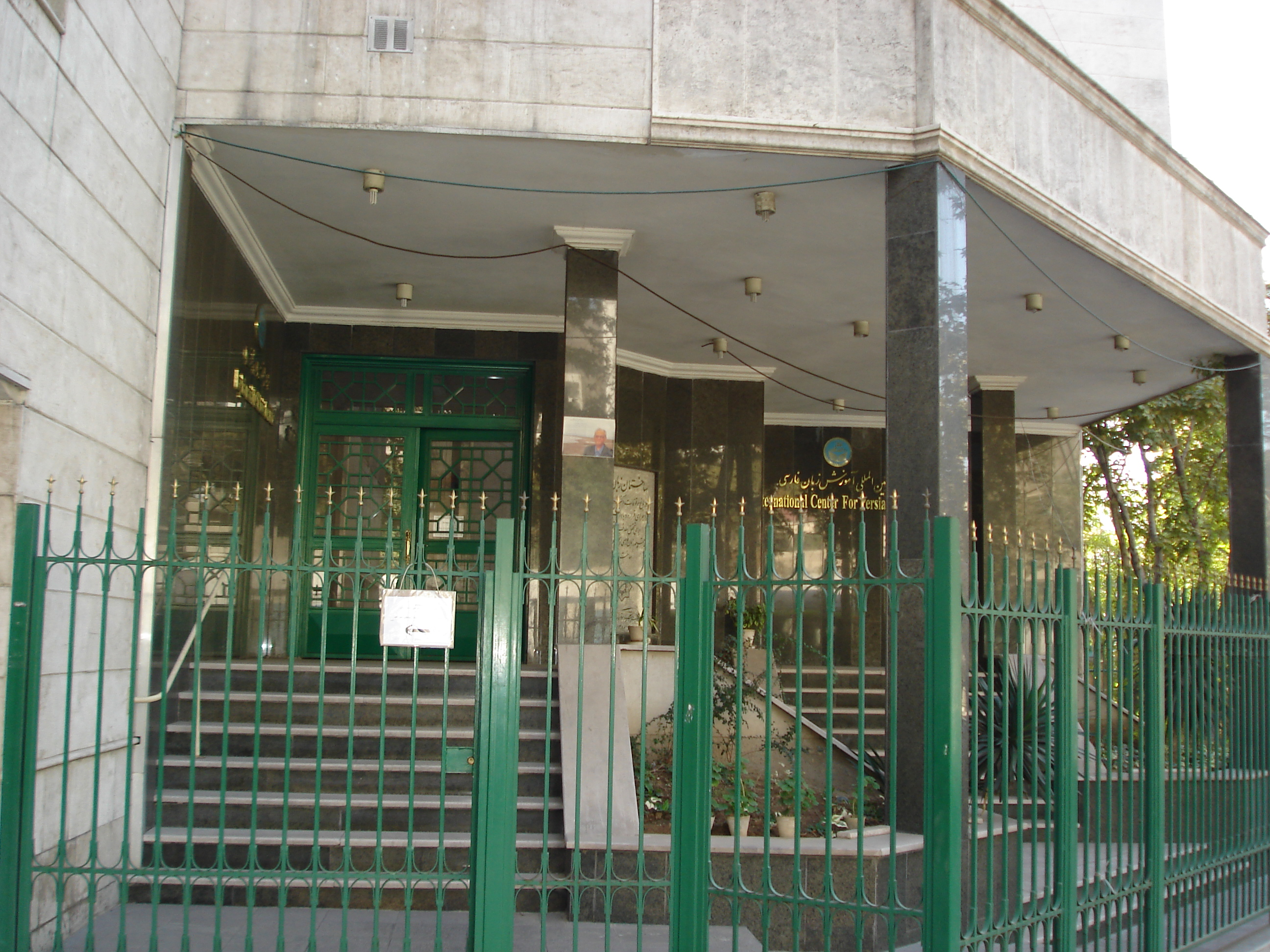 Entrance of Dehkhoda Institute (International Center for Persian Studies)